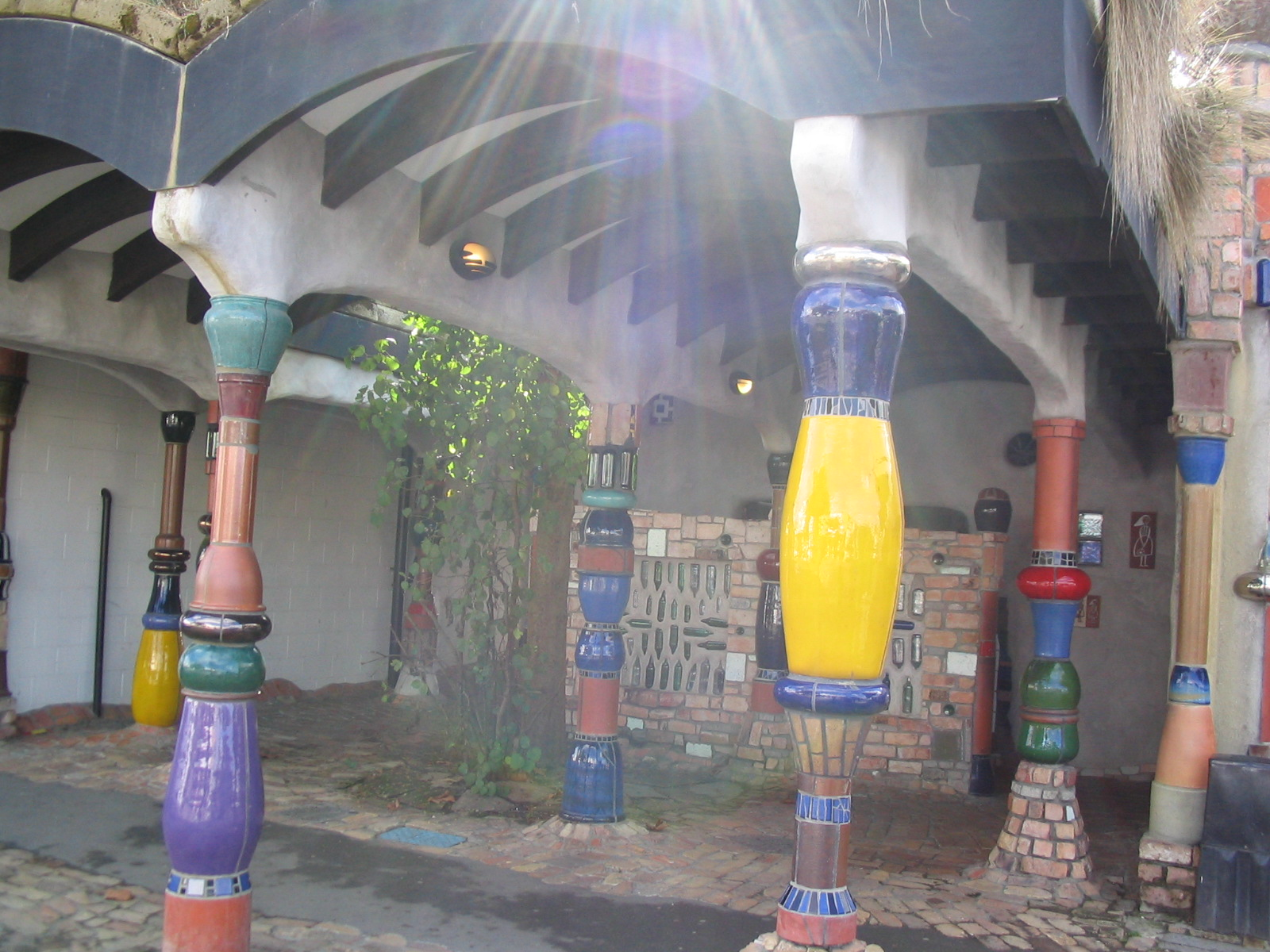 This is a public toilet at Kawakawa, Northland, New Zealand. It is the only building by Hundertwasser in the Southern Hemisphere. He lived in New Zealand until his death. Kawakawa is about 15km south of Paihia.